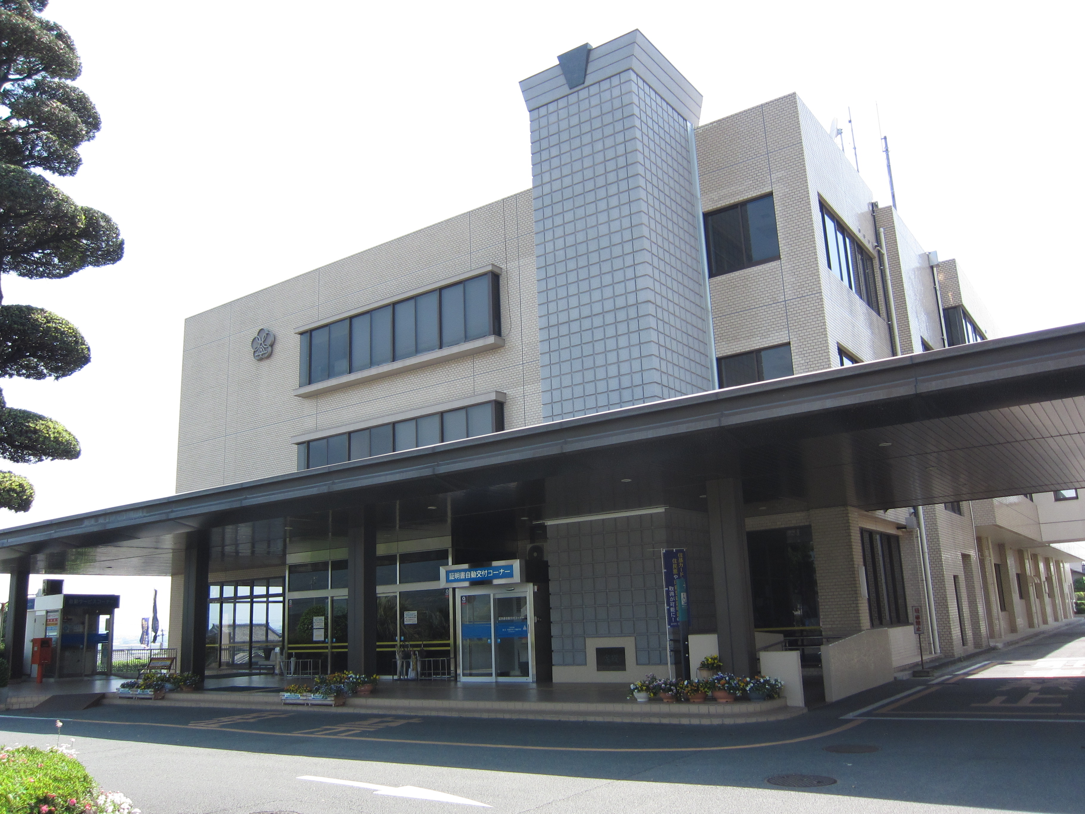 Mashiki Town Hall